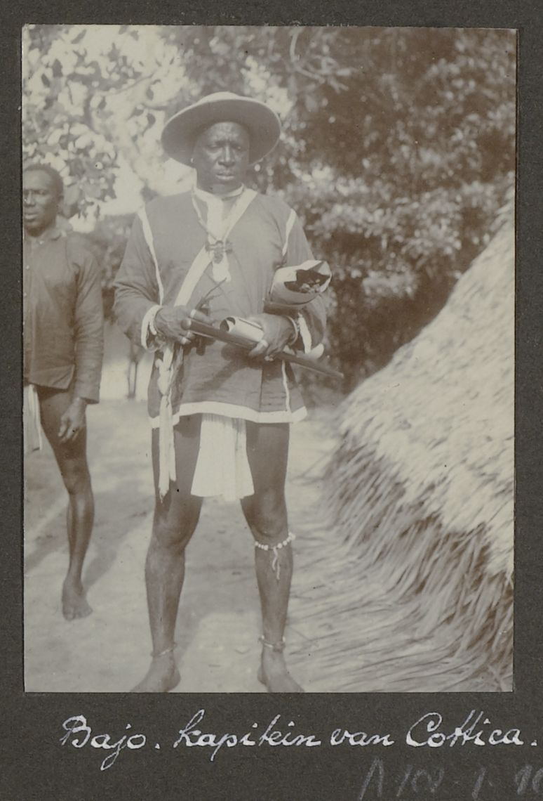 Photograph made during the Gonini Expedition in Suriname, 1903-1904. The Royal Dutch Geographical Society (KNAG) conducted an expedition to explore the surroundings of the Gonini River.